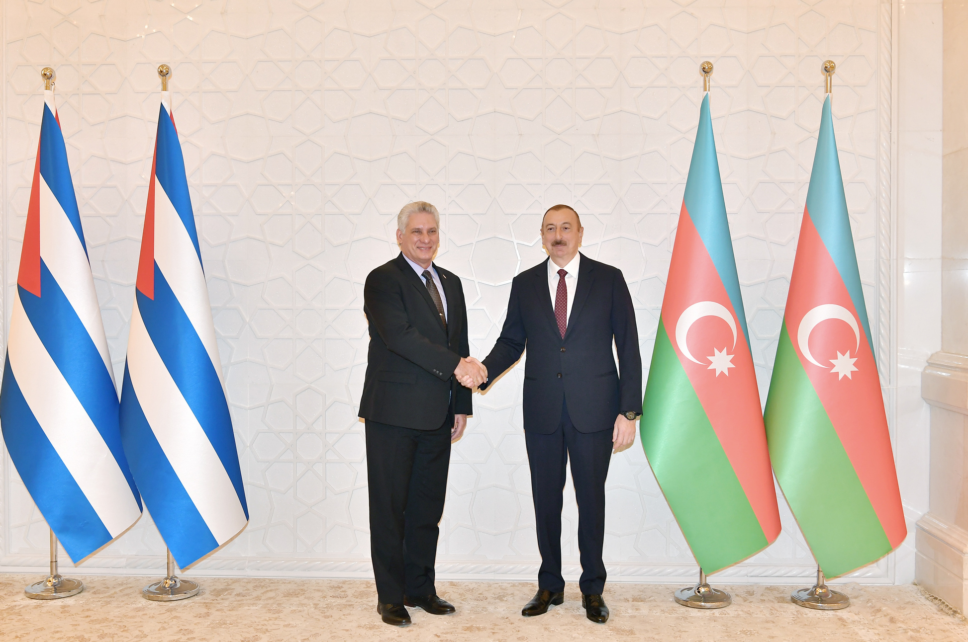 Ilham Aliyev met with President of Cuba Miguel Diaz-Canel